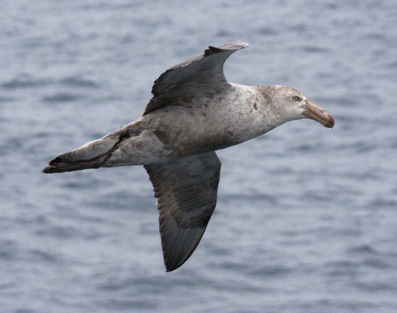 Northern Giant Petrel